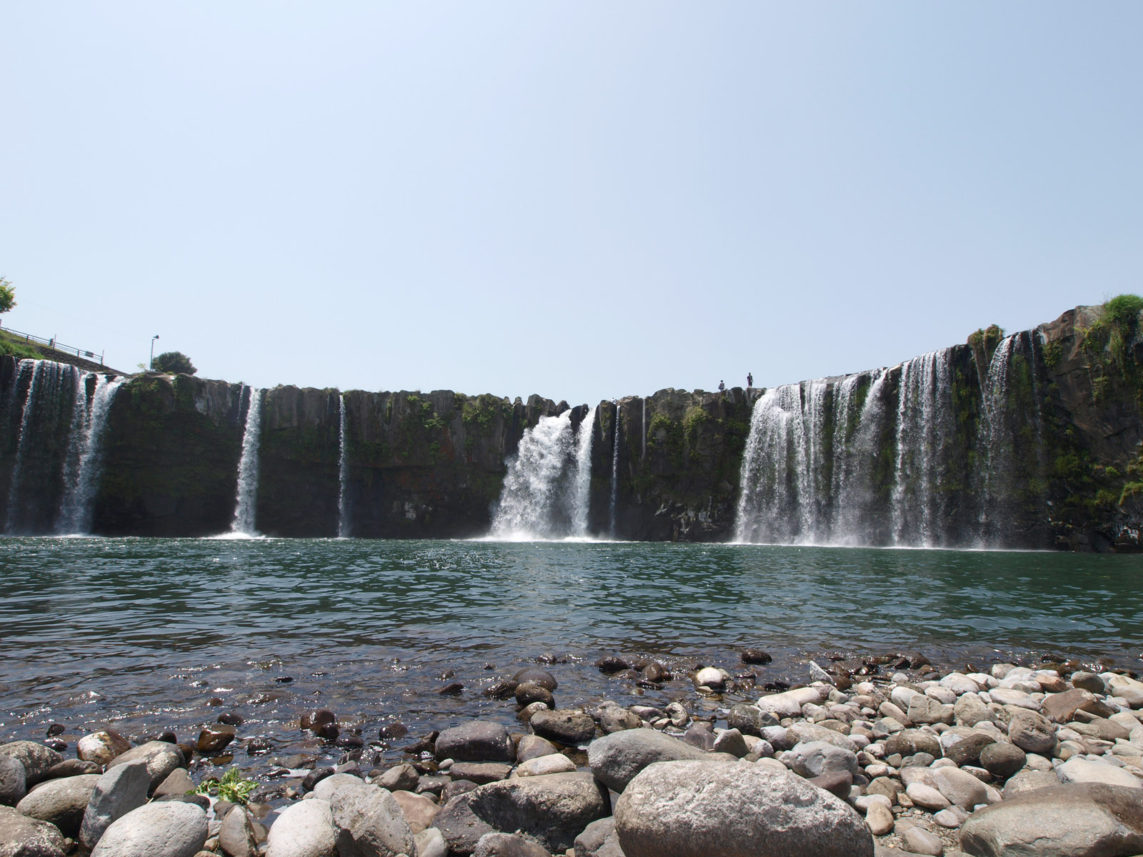 Harajiri Fall, Ogata Town, Bungo Ono City, Oita Prefecture